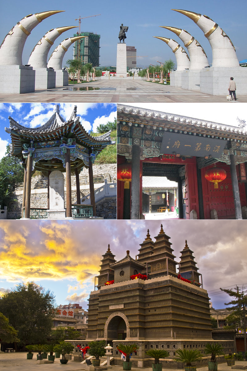 Hohhot is the capital of Inner Mongolia Region, People's Republic of China. Clockwise from top: monument of Genghis Khan, Governor of Suiyuan General, Temple of the Five Pagoda, Zhaojun Tomb.